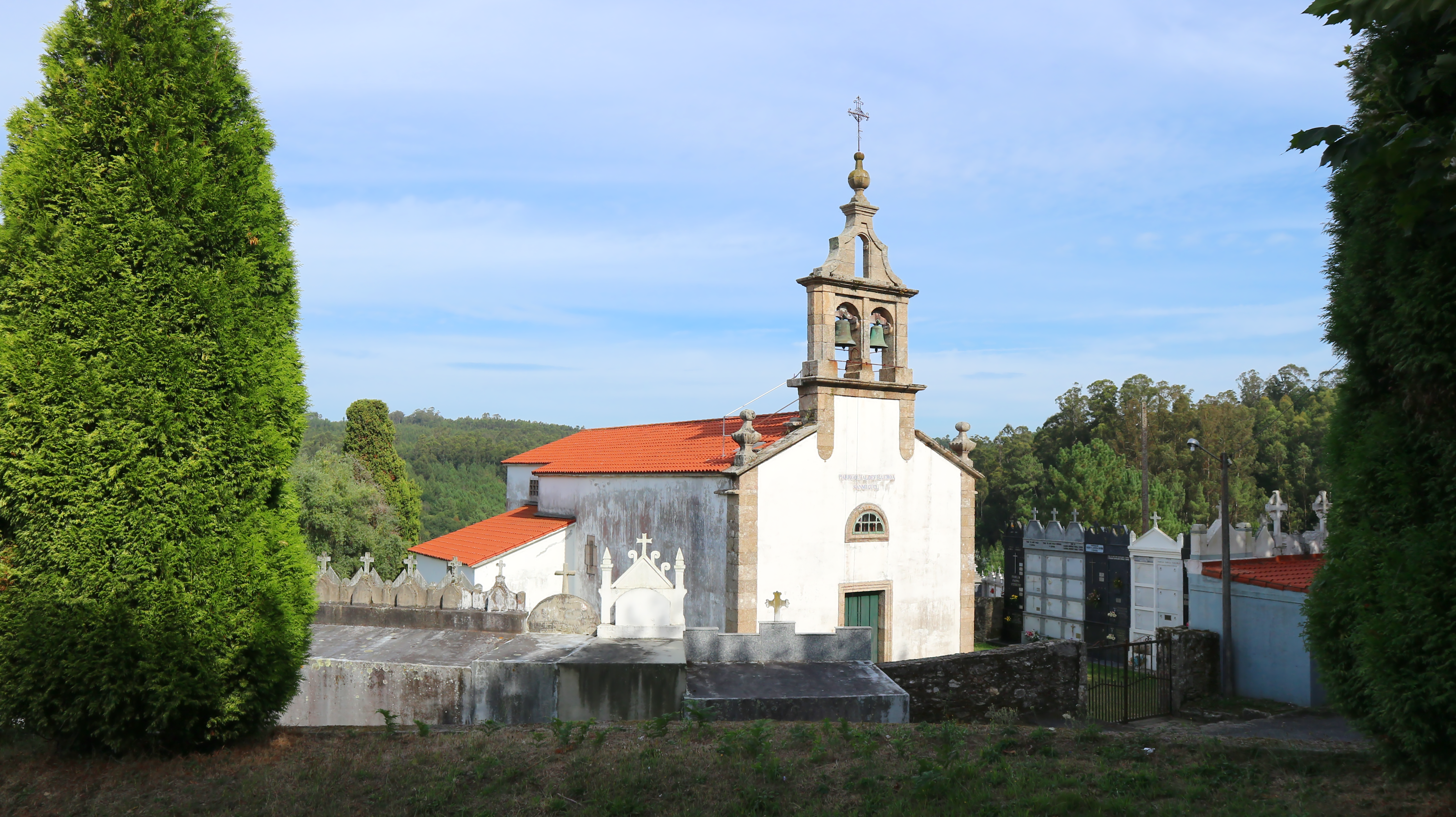 Igrexa de San Miguel de Figueiroa, Abegondo.